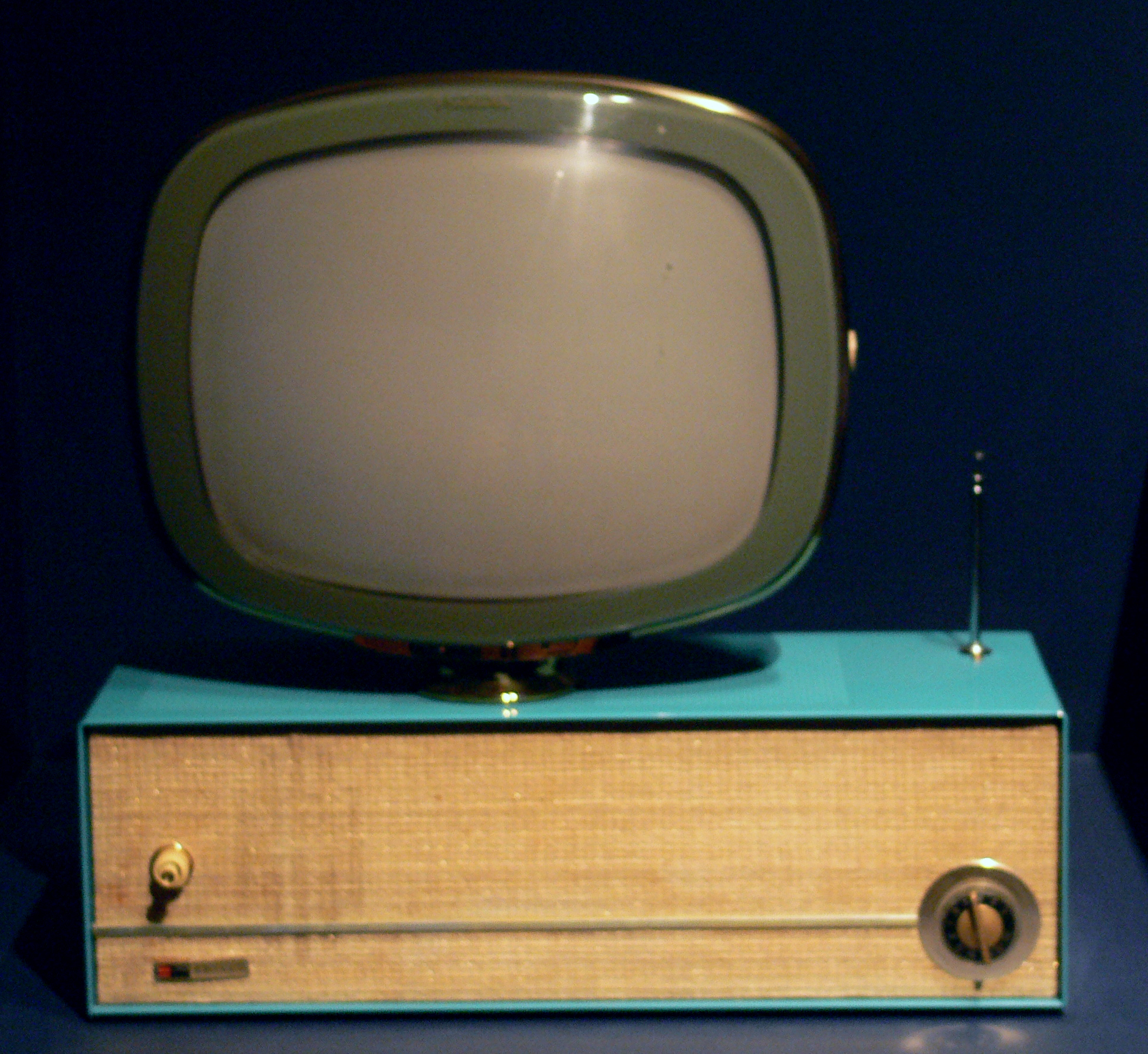 "Predicta" model television, designed c. 1958-1959; Manufacturer: Philco; 59 x 25.4 x 62.5 cm; Dallas Museum of Art, Dallas, Texas; Dallas Museum of Art, 20th-Century Design Fund; object number 1995.144